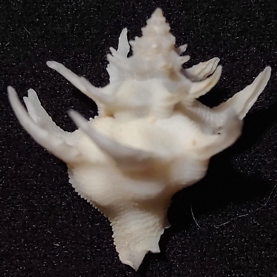 Babelomurex Armatus back